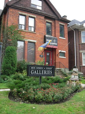 Outside shot of The Arctic Experience McNaught Gallery Hamilton, Ontario